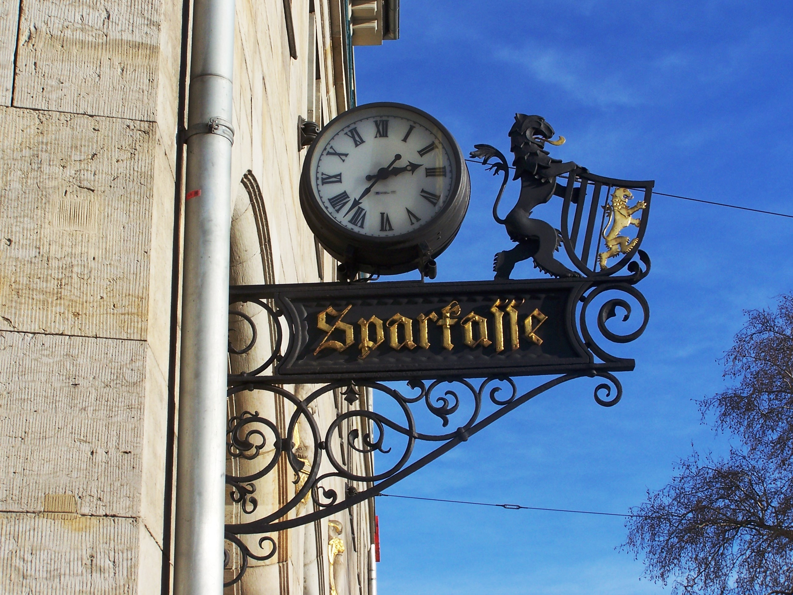 bank building in Dresden, Germany